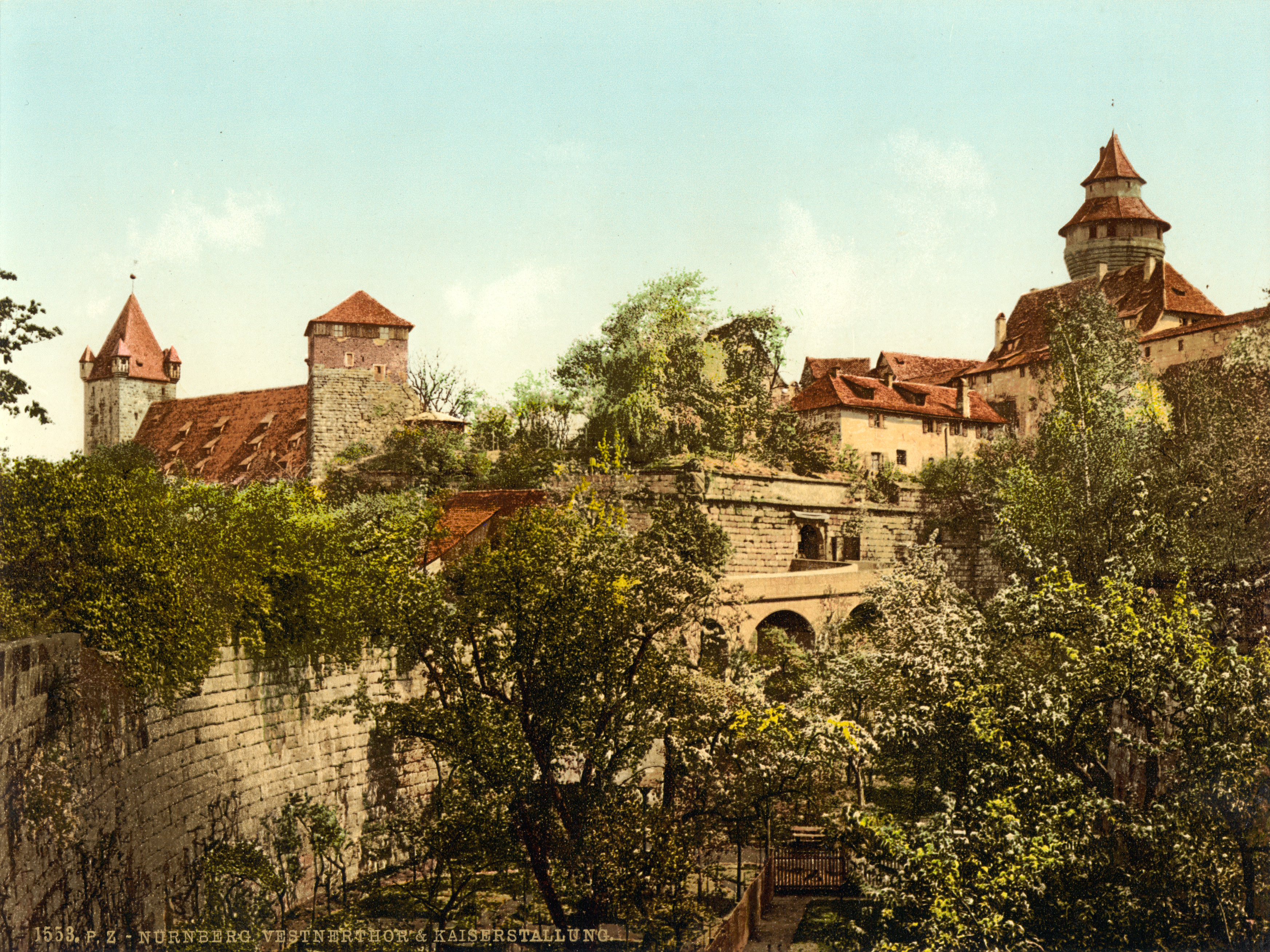 1553 P.Z. Nürnberg. Vestnerthor & Kaiserstallung. Photochrom print by Photoglob Zürich, between 1890 and 1900. From the Photochrom Prints Collection at the Library of Congress More photochroms from Germany | More photochrom prints [PD] This picture is in the public domain